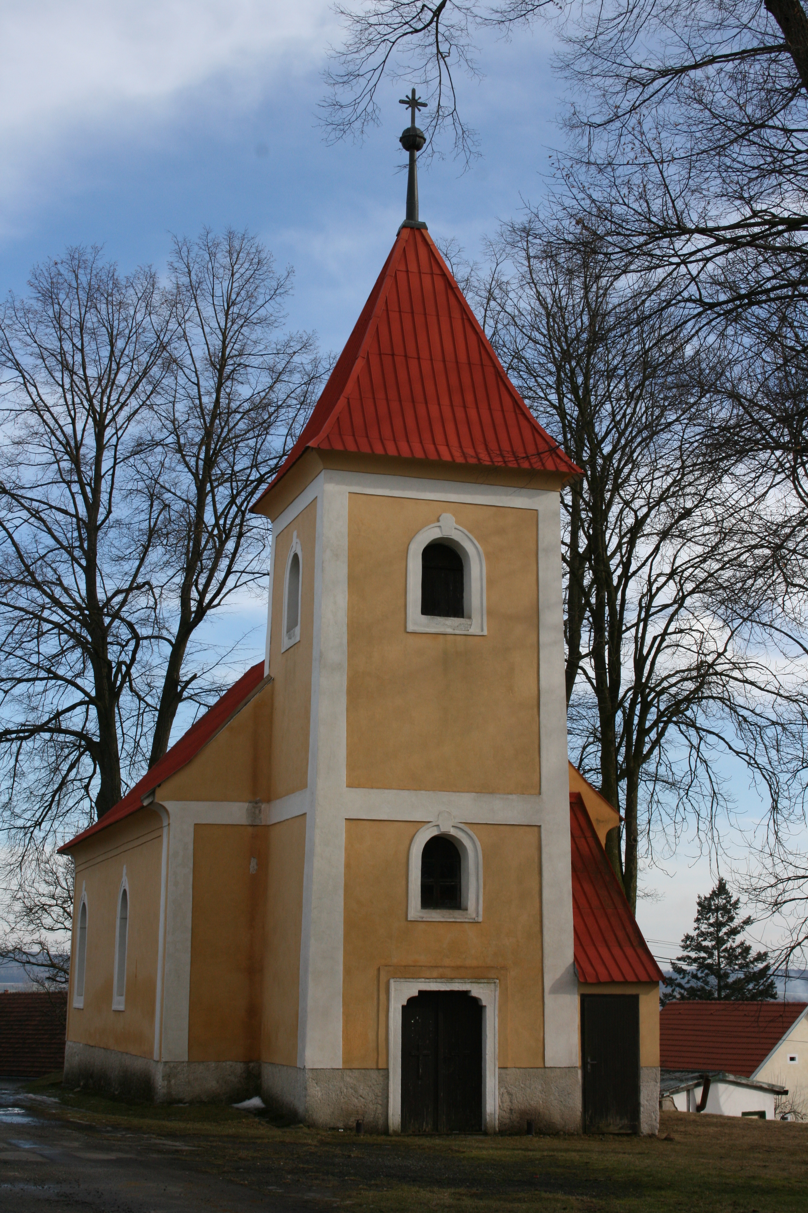 Chapel of St. John and Paul from the 17th century in Pleše village, Jindřichův Hradec district, Czech Republic.